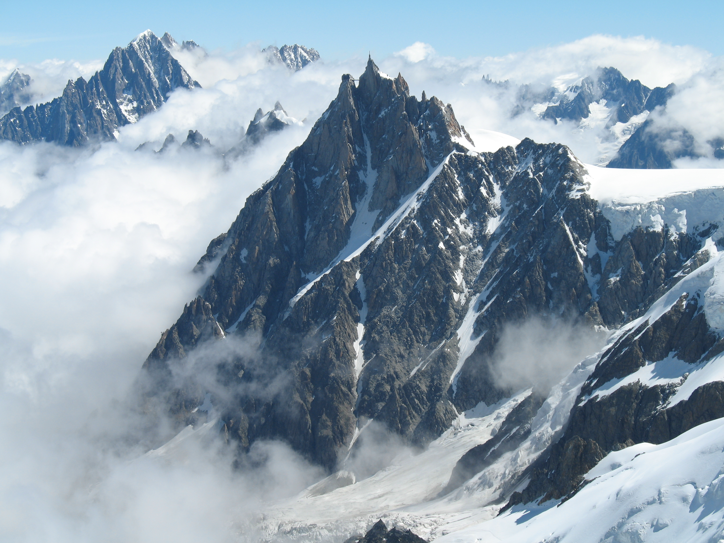 Aiguille du Midi ( altitude 3,842 m), Chamonix, in summer, in the Mont-Blanc massif, Auvergne-Rhône-Alpes region, France.